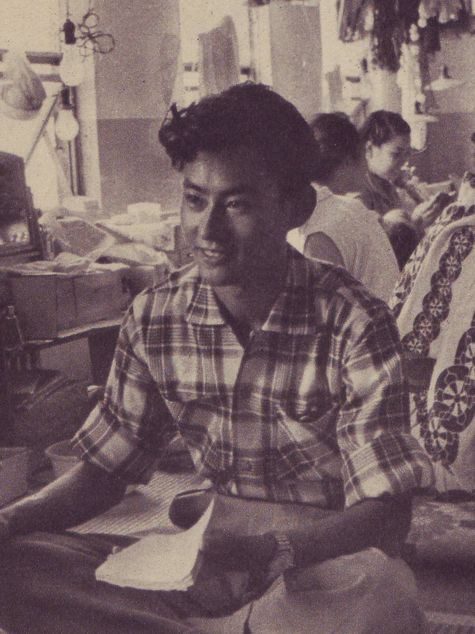 Akira Ishihama (Japanese Actor). taken in 1955.